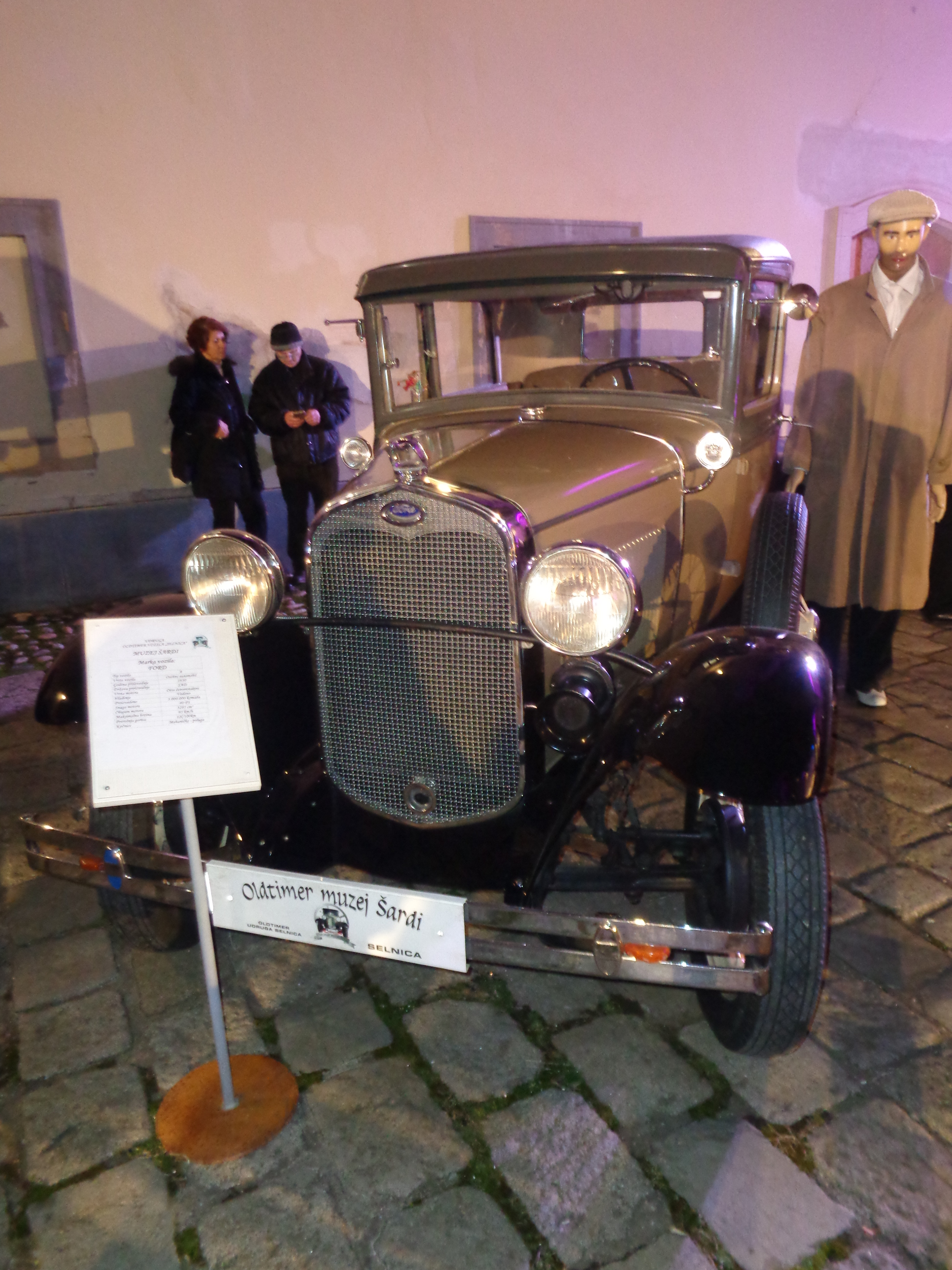 1930 Ford A from the Oldtimer Museum Šardi (Selnica, Medjimurie County), at 2020 Night of Museums in Čakovec, Croatia - front view